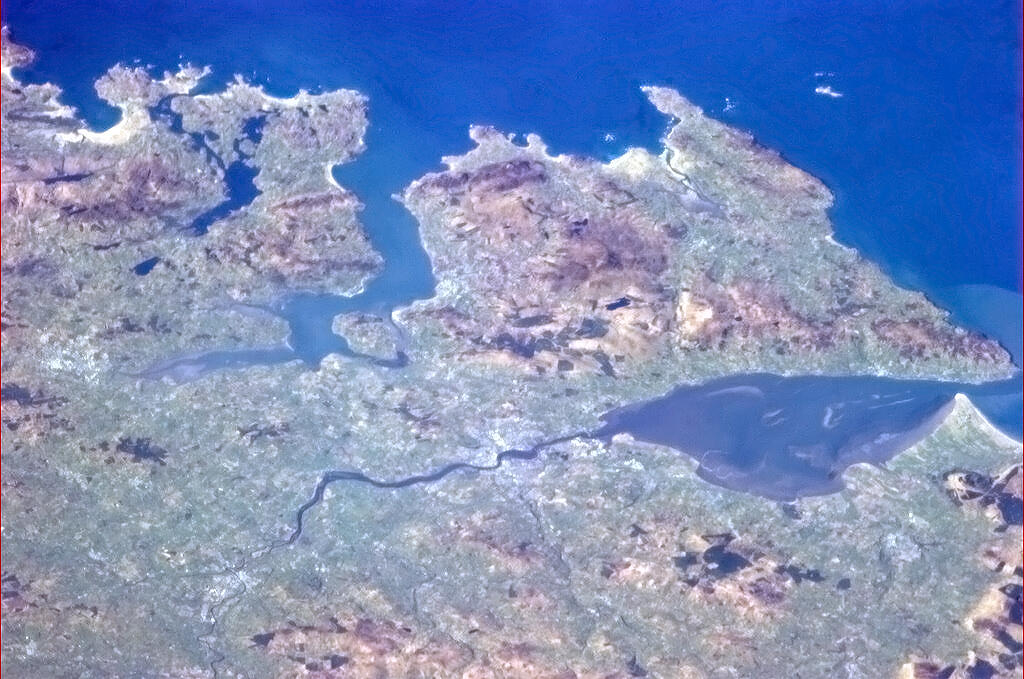 "Derry, Northern Ireland, and the rugged coast facing the North Atlantic." – Caption by astronaut Chris Hadfield on board the International Space Station. This is one of a set of eight pictures of Ireland taken from earth orbit that were posted on the internet by Hadfield to celebrate Saint Patrick's Day in 2013. The Inishowen Peninsula on the north coast of Ireland stands out clearly in this picture, surrounded by Lough Swilly (left) and Lough Foyle (right). The dark River Foyle winds through the countryside and empties into Lough Foyle at the city of Derry.